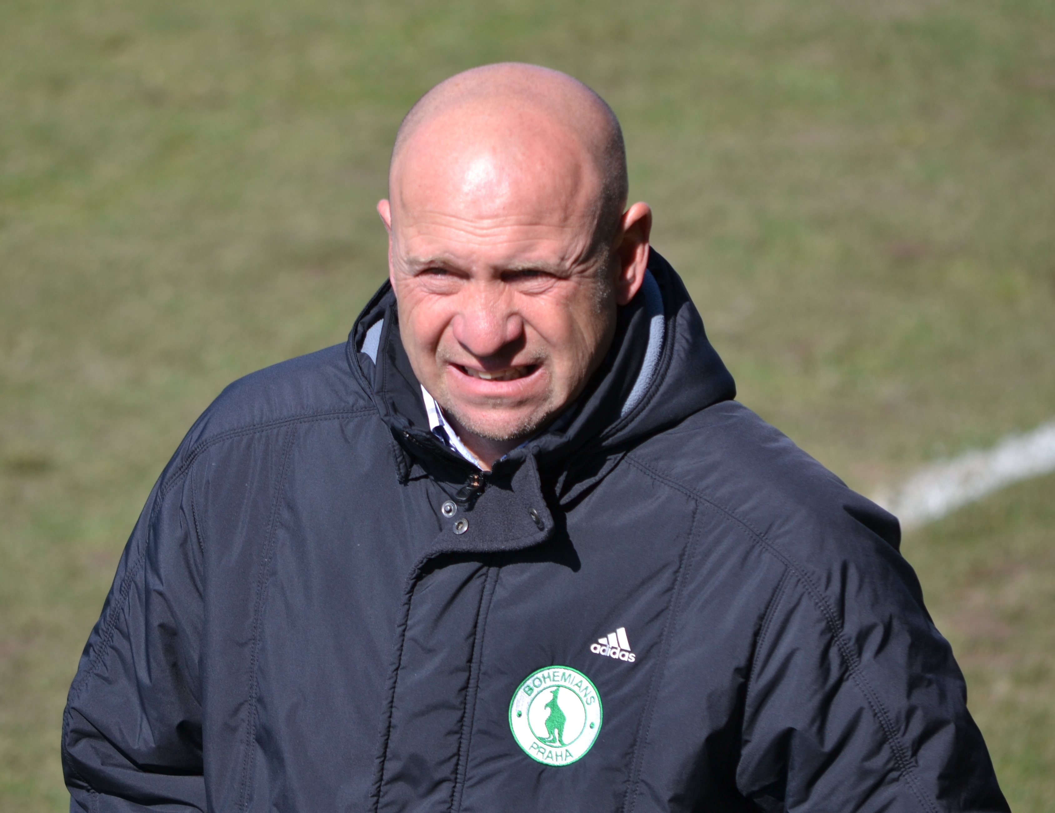 Ivan Pihávek, Czech football player and coach